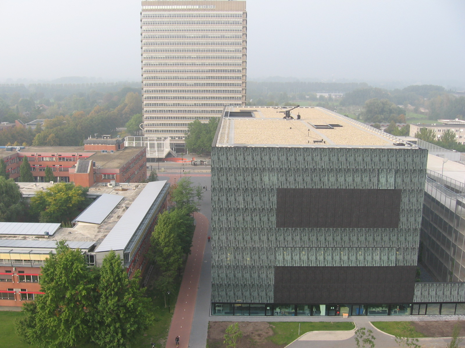 Utrecht University's campus "De Uithof".